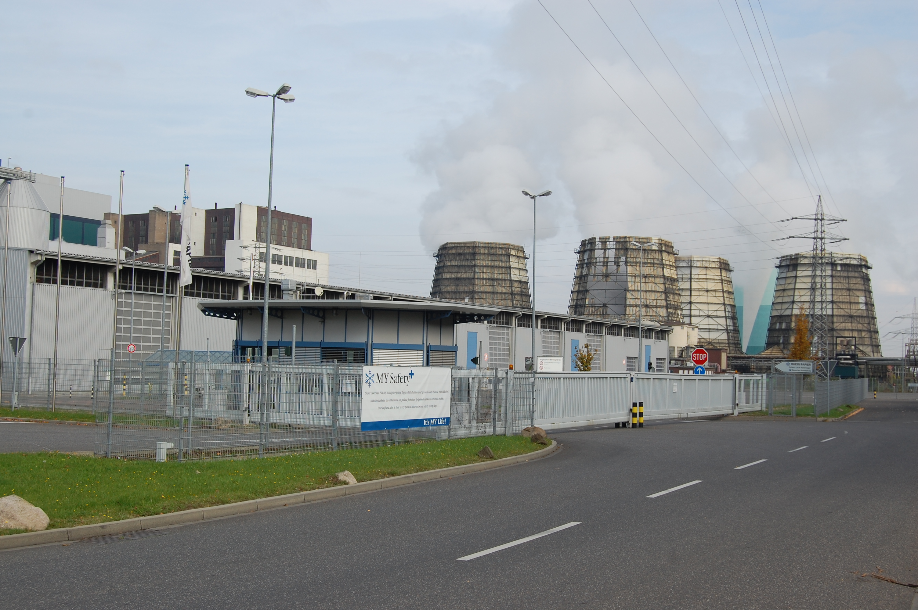 industry in Hürth-Knapsack/Berrenrath, Germany; in front Rhein Papier GmbH, in back cooling towers of Goldenberg power station